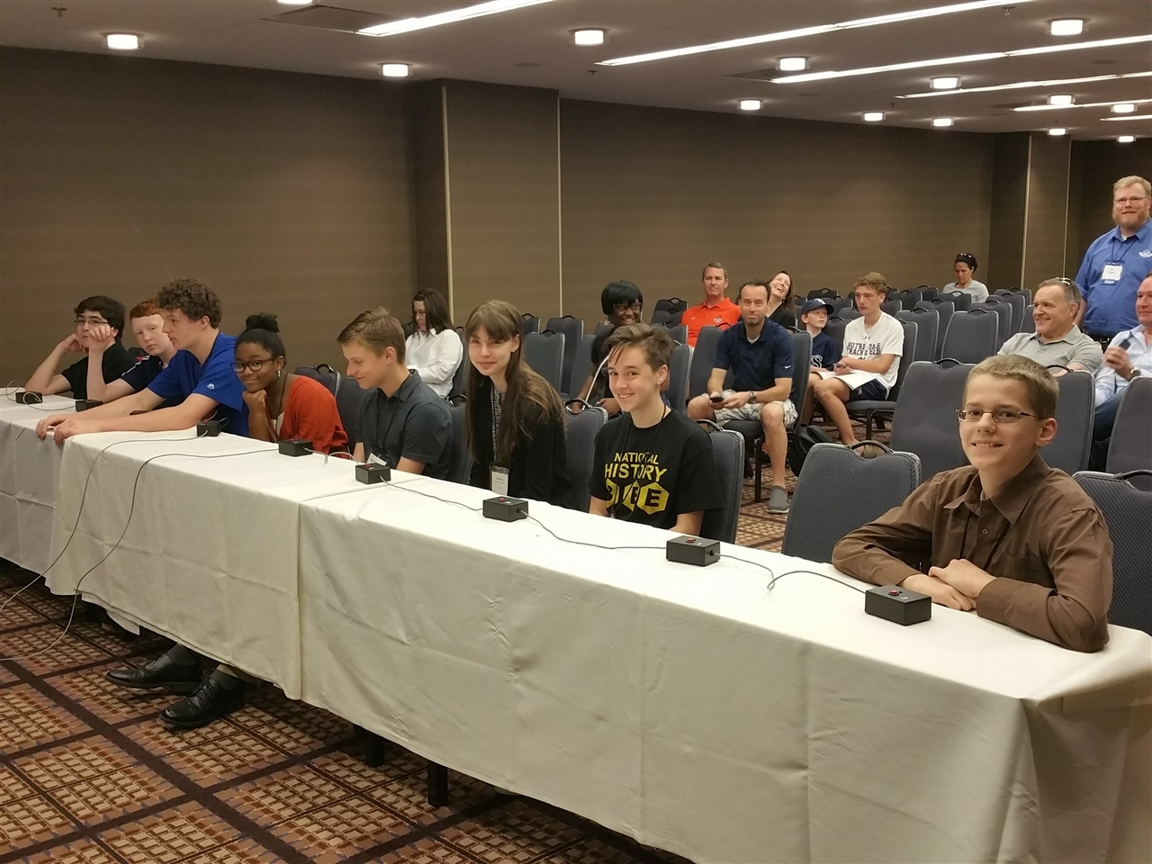 Students competing in NatHistoryBee